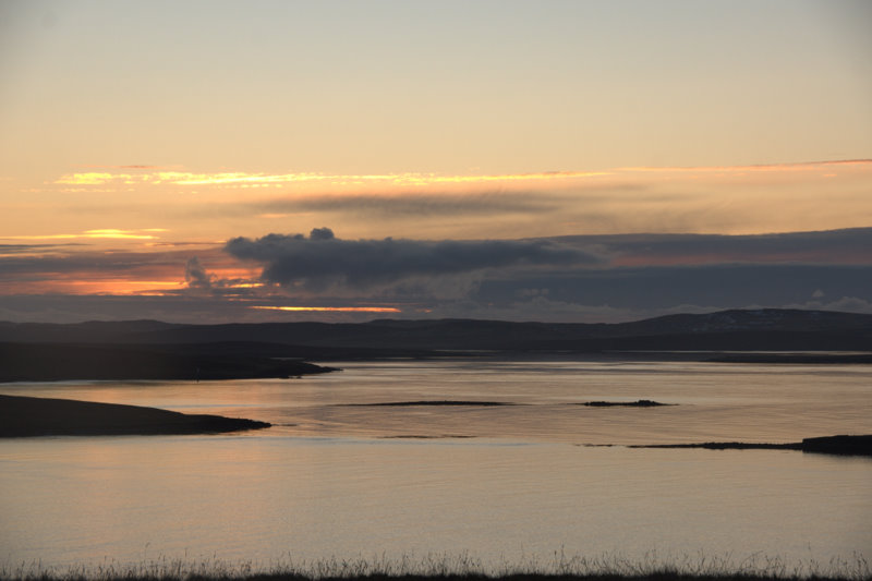 Sligga Skerry, Yell Sound at dusk An uncharacteristically calm winter's day. Bigga is the island to the left and Uynarey is to the right.